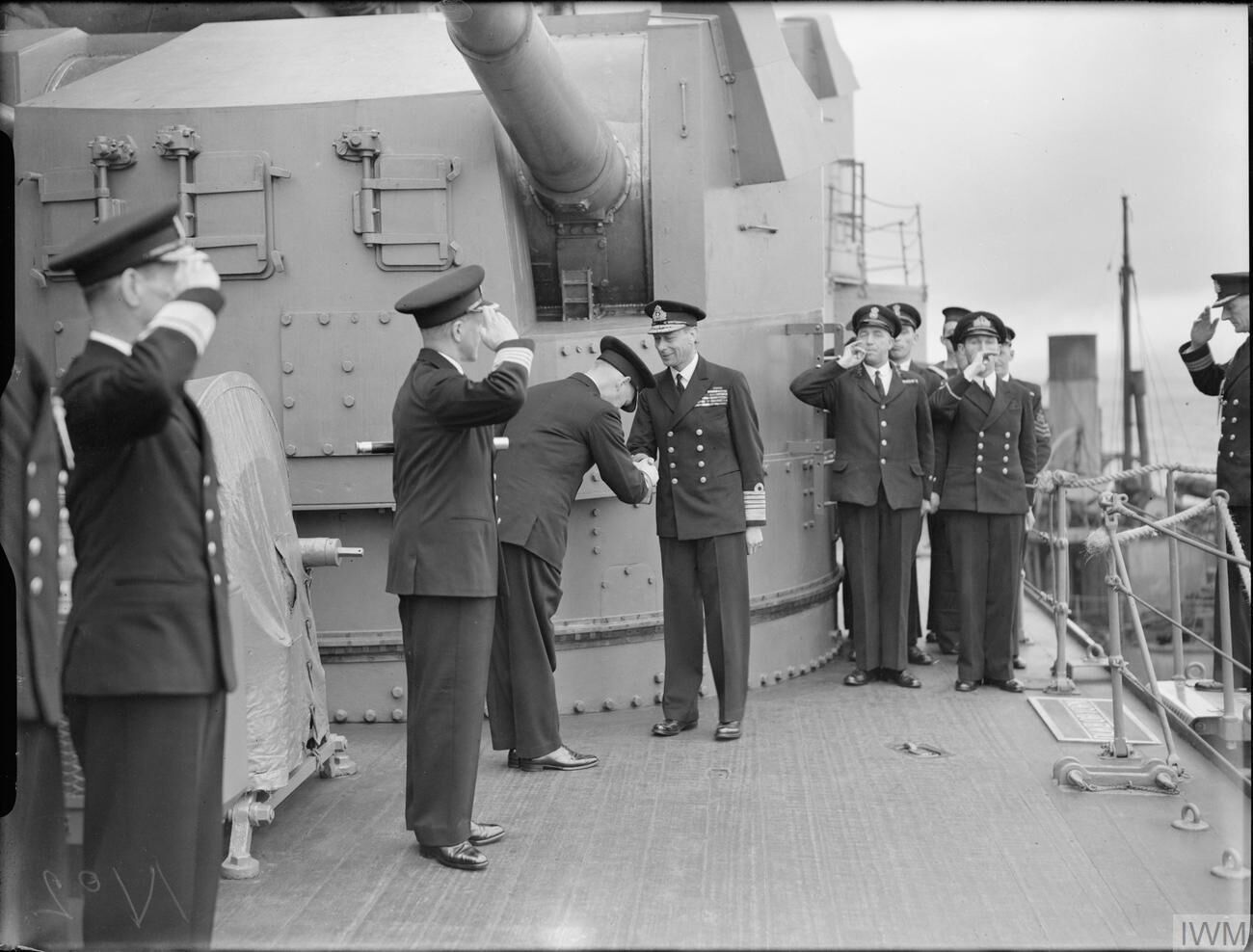 IWM caption : HM King George VI being received on board HMS DUKE OF YORK by Admiral Sir John Tovey, Commander in Chief Home Fleet at Scapa Flow. One of the battleship's twin 5.25 inch gun turrets can be seen in the background. Note the two men piping the king aboard.